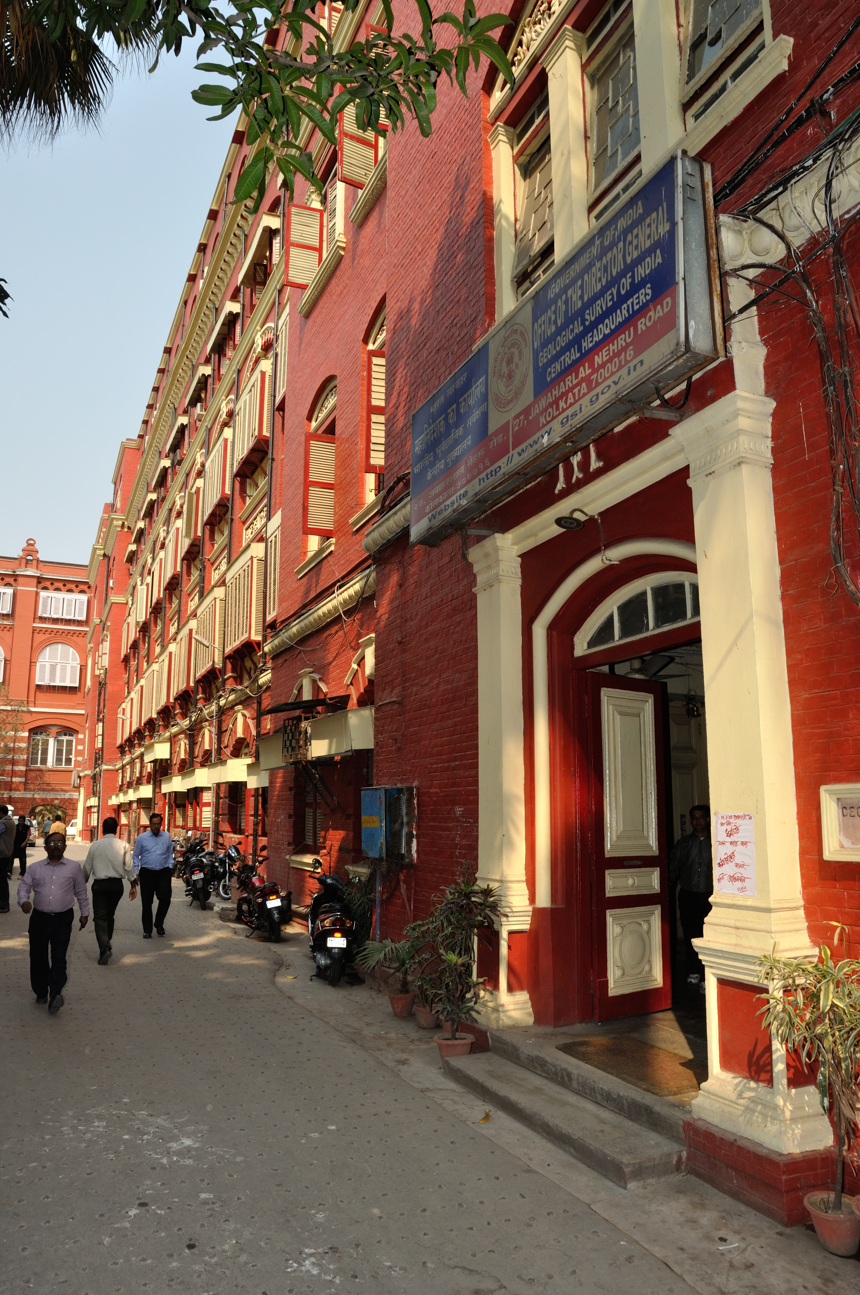 Photographed in Kolkata.